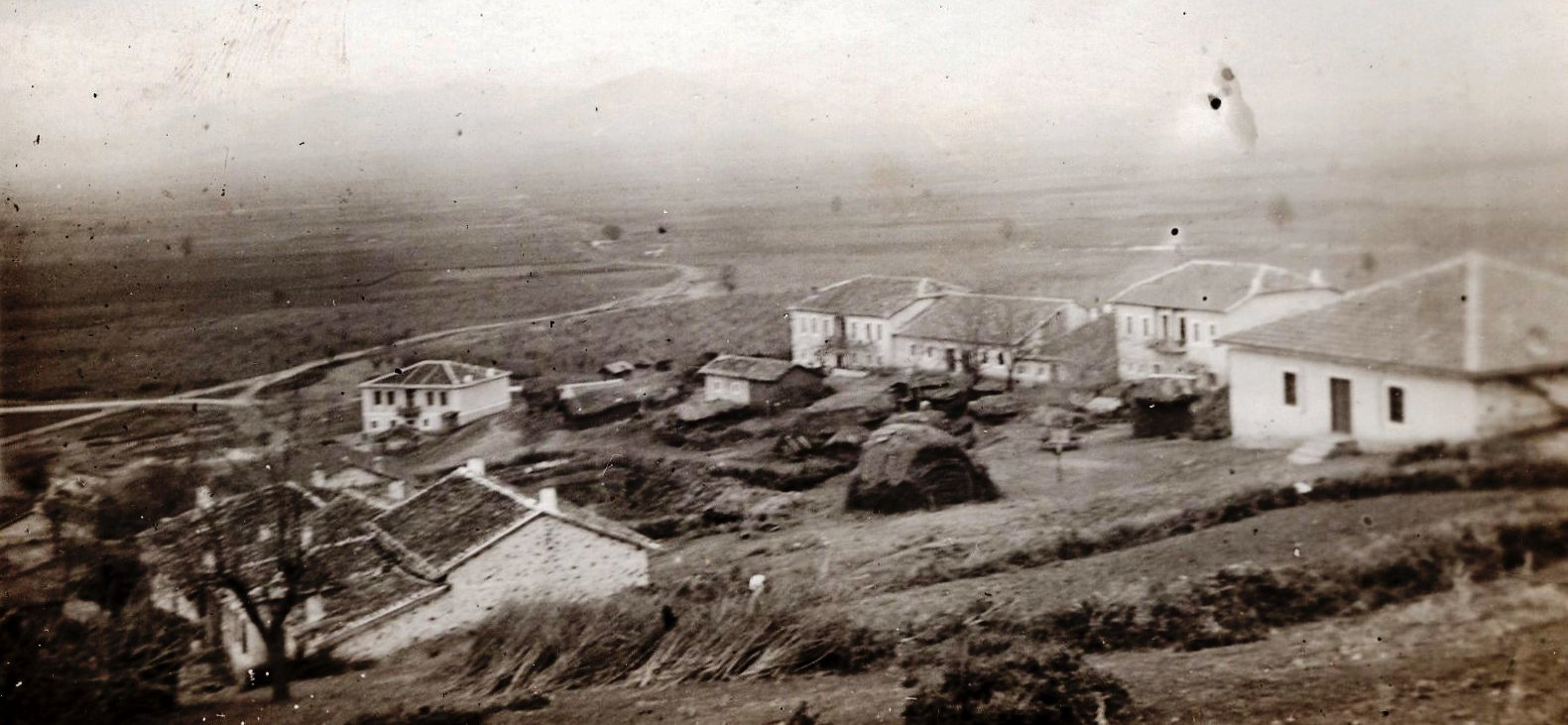 Village Brajkovci (Valandovo), 1931 This media file is produced by Wikipedian in Residence in Category:Wikipedian in Residence at DARM in 2016.